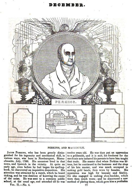 Portrait of Jacob Perkins. Croome, del.; Hartwell sc. Page from: American Magazine of Useful and Entertaining Knowledge. vol.2, 1835.